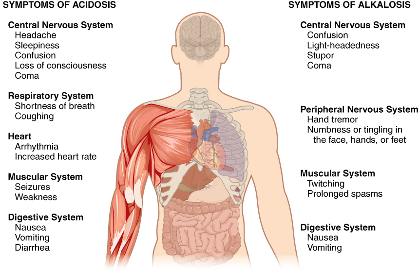 Illustration from Anatomy & Physiology, Connexions Web site. Jun 19, 2013.